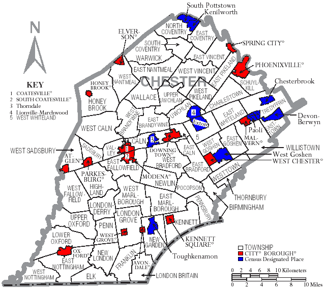 Map of Chester County, Pennsylvania, United States with township and municipal boundaries